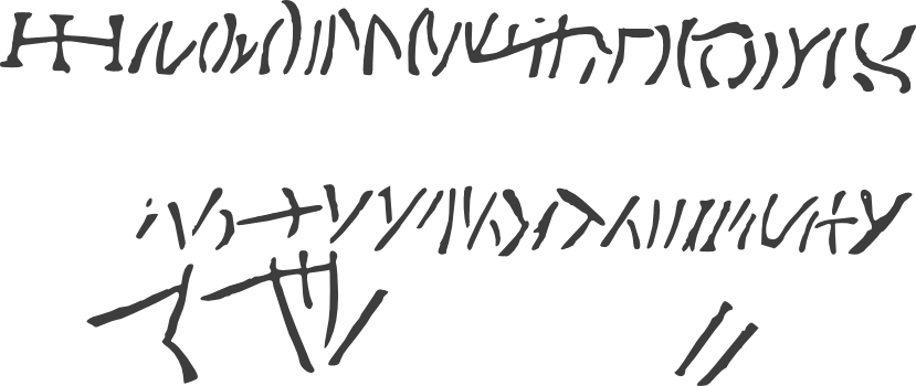 Käymäjärvi Inscriptions drawn by Pierre Louis Maupertuis in Ouvres de Maupertuis III 1768. Drawn originally in Käymäjärvi in 1737.